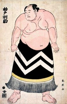 photographic reproduction of color woodprint by Shunei Katsukawa (1762-1819)